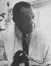 Participant doctor in the Tuskegee study.